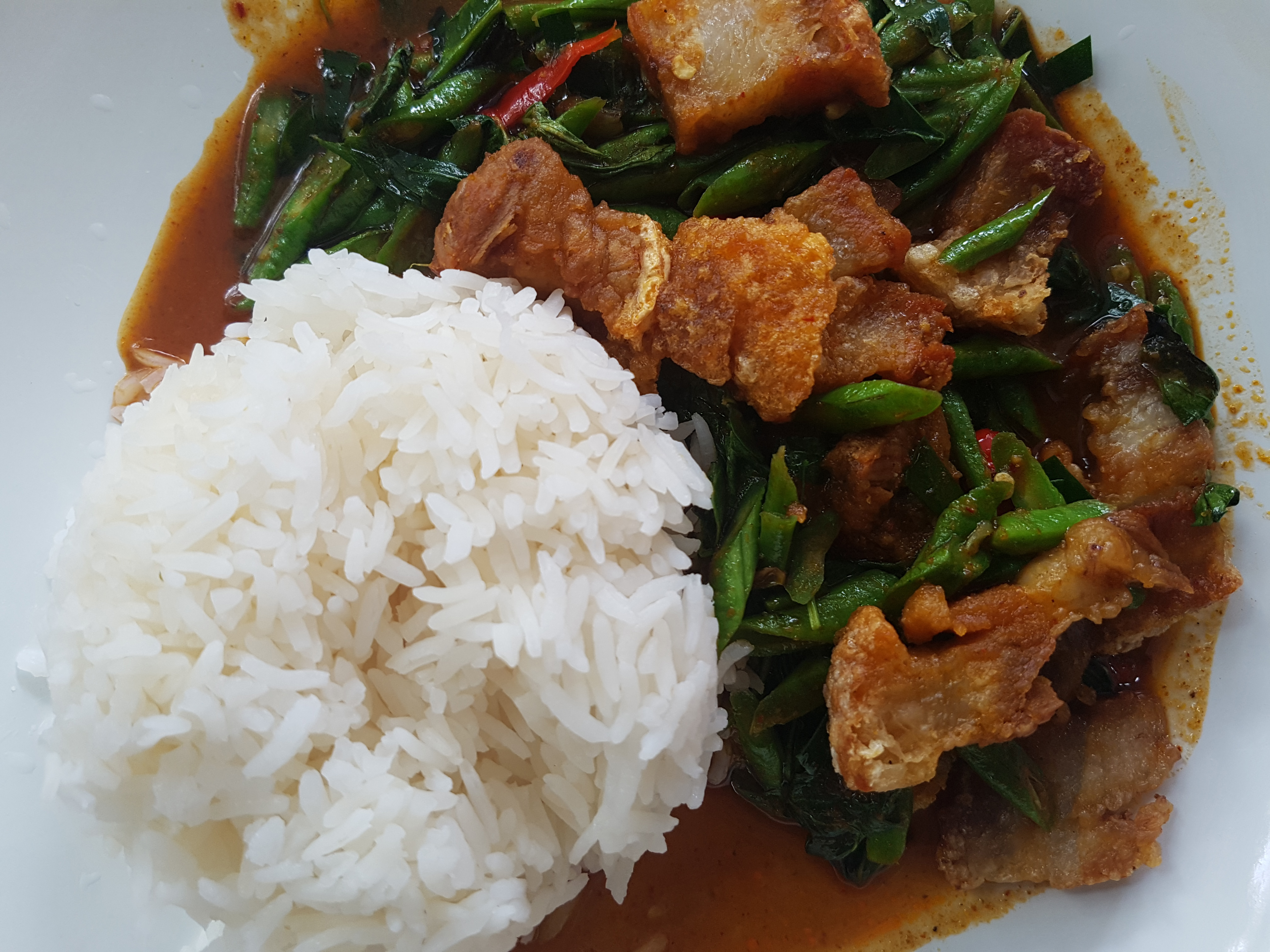 Phrik khing fried crispy pork with rice (หมูกรอบผัดพริกขิงราดข้าว) as sold in Chiang Mai, Thailand.